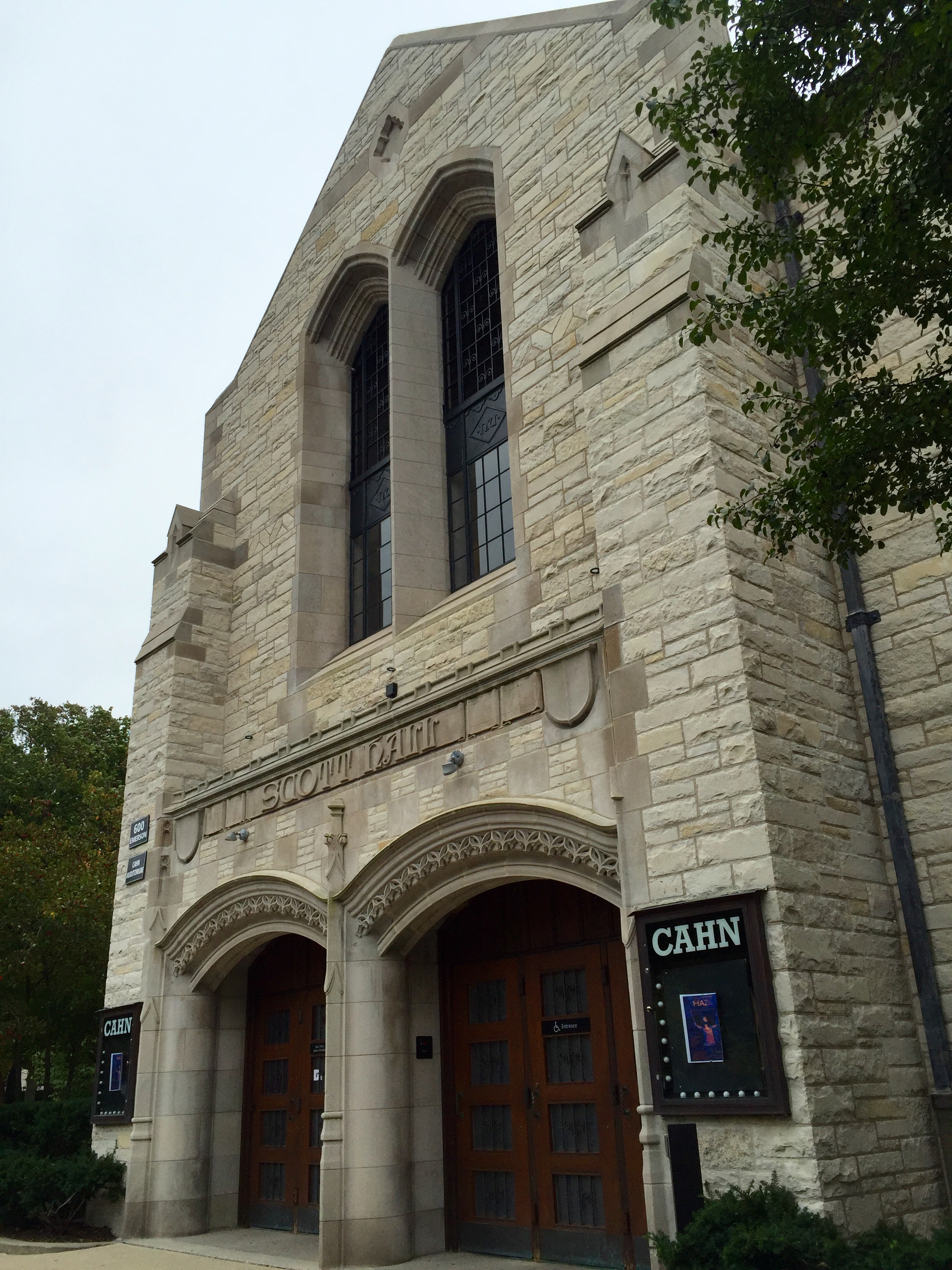 Cahn Auditorium at Northwestern University taken 10/20/16